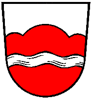 Coat of Arms of Kreis Lübbecke, Germany (as used till 1968